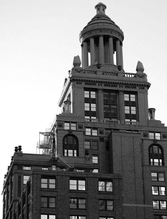 Niels Esperson Building (by mw photos) URL: Creative Commons - Attribution 2.0